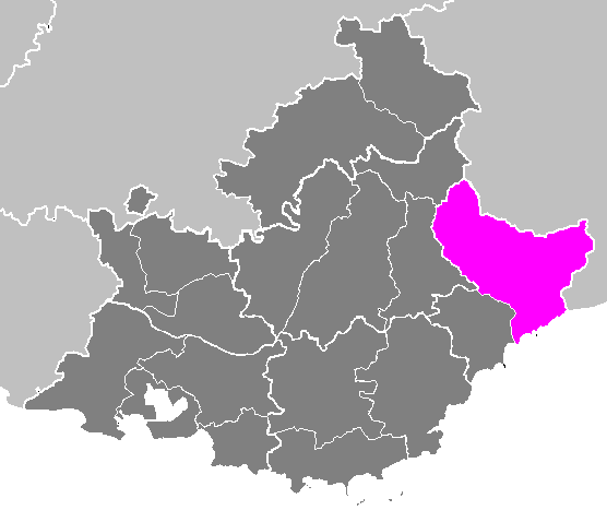 Maps of arrondissements and cantons of France: Arrondissement de Nice.PNG